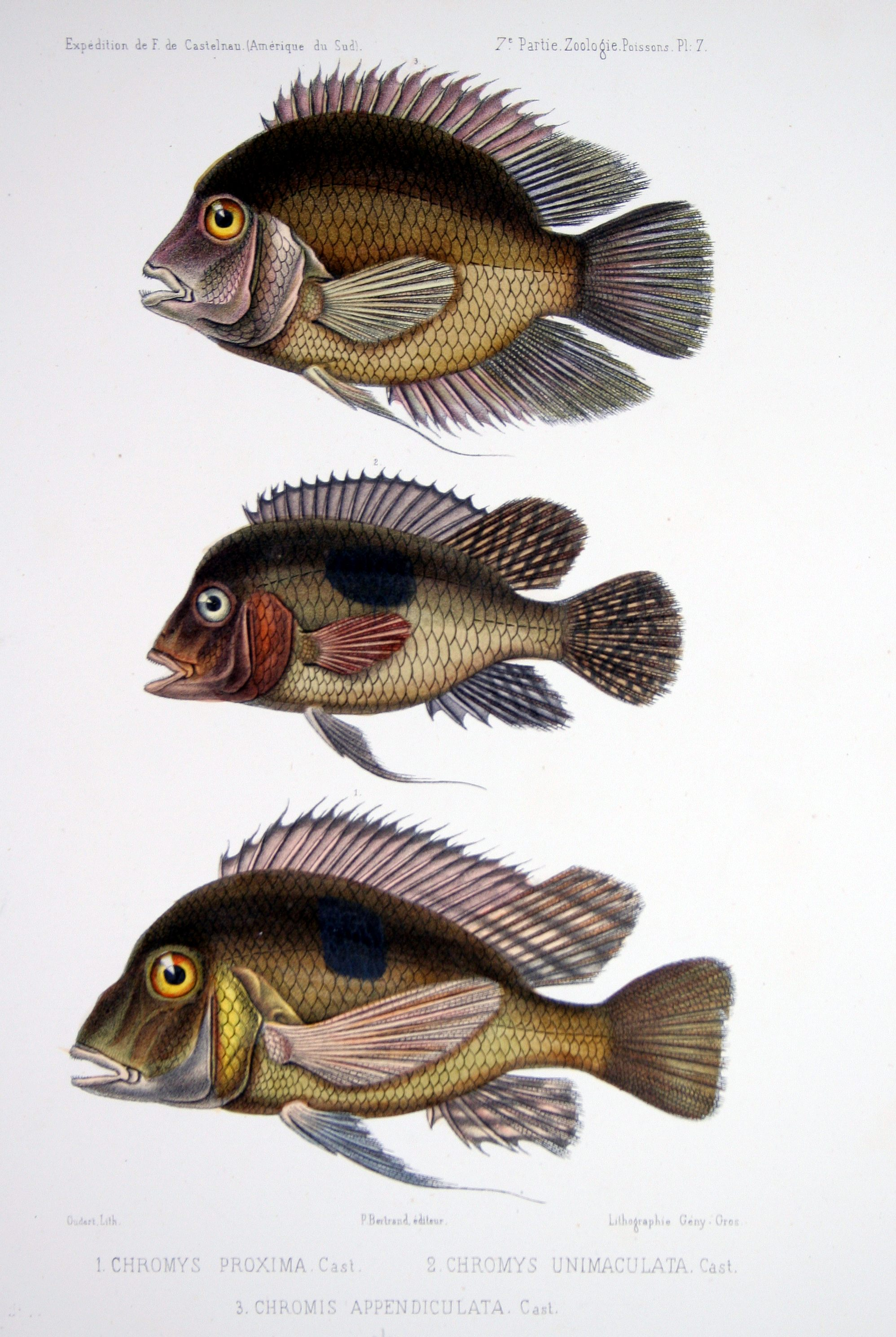 From top to bottom: Chromys appendiculata = Heros efasciatus Chromys unimaculata = Geophagus brasiliensis Chromys proxima = Geophagus proximus